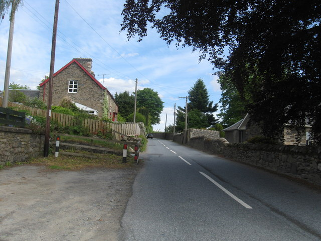 The A924 heading through Kinnaird